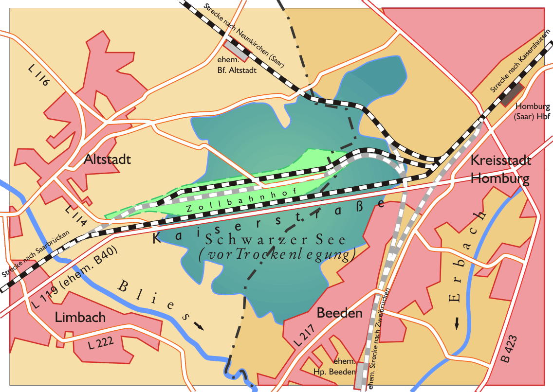 Map of the former Railway Station near Homburg (Saar)